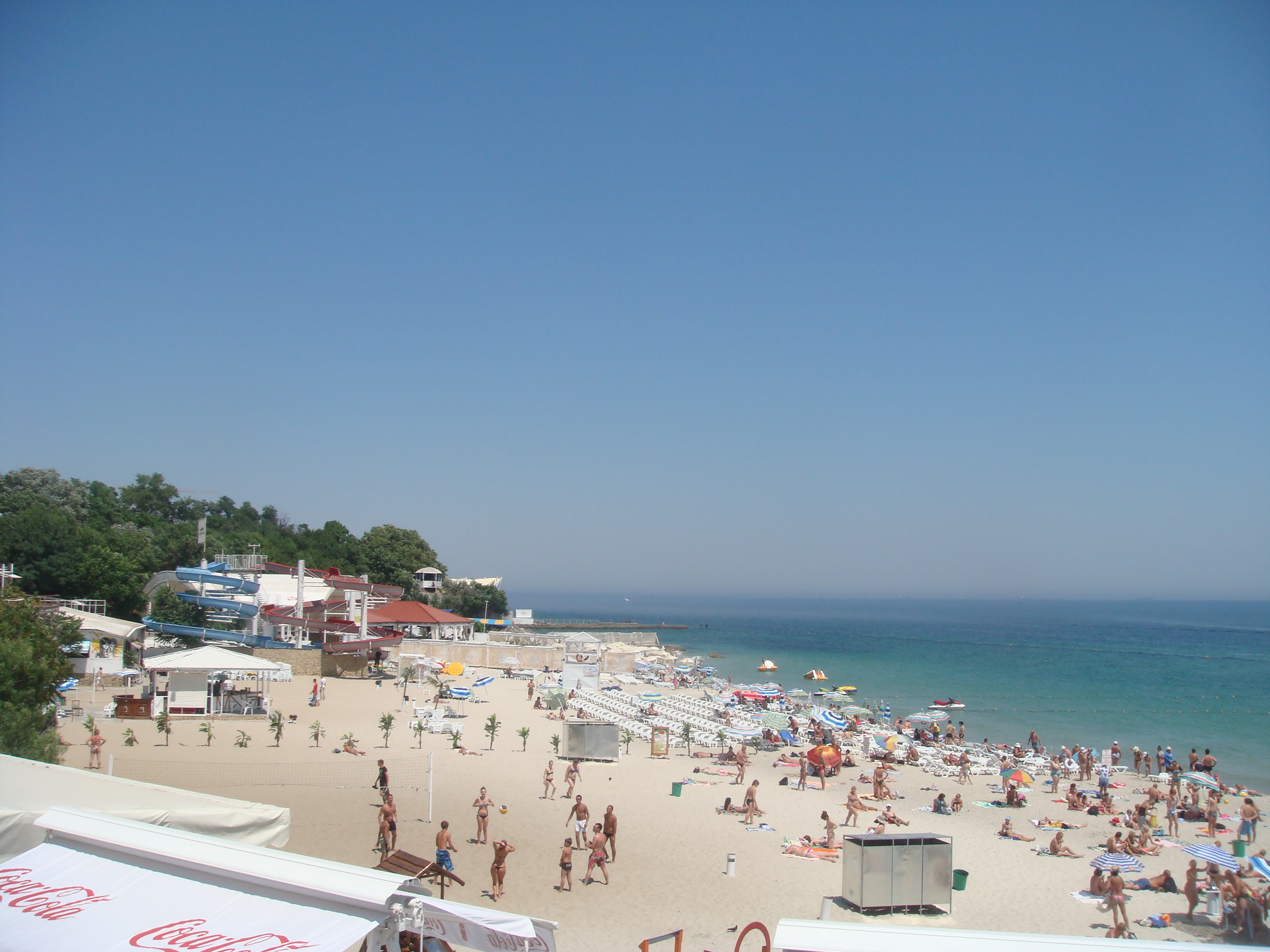 Odessa, Ukraine. Arcadia resort area. Public beach. Summer 2011.